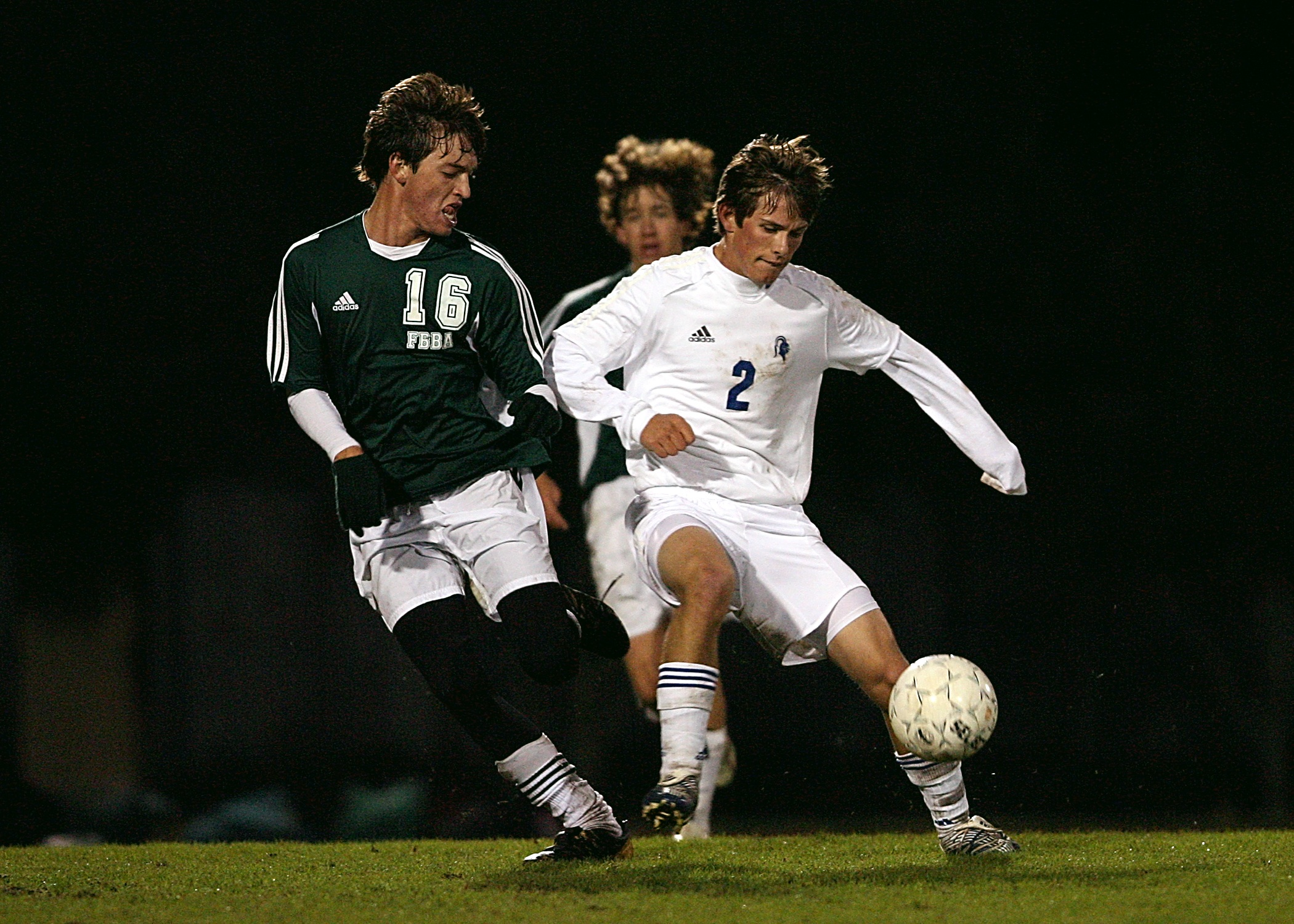 Men playing football, also known as soccer.